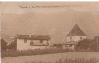 An old postcard of the house in Brixen where Czech writer and journalist Karel Havlíček was interned by Austrian authorities. A copy of an old postcard.